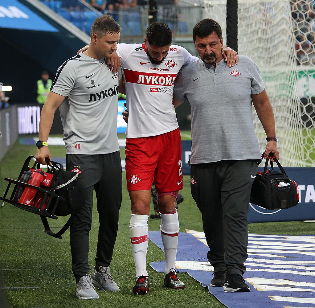 Samuel Gigot